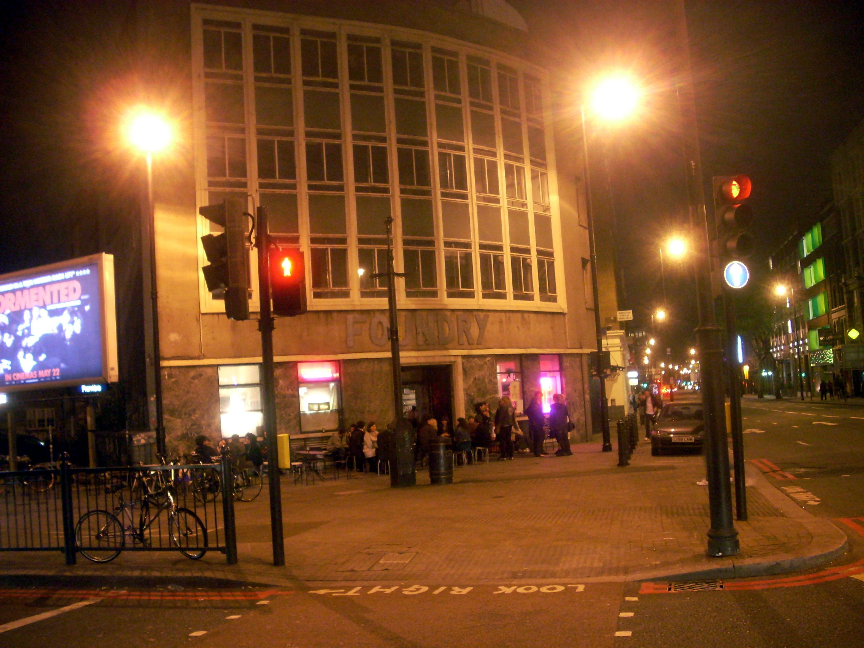 Foundry (bar) Shoreditch 2009 exterior